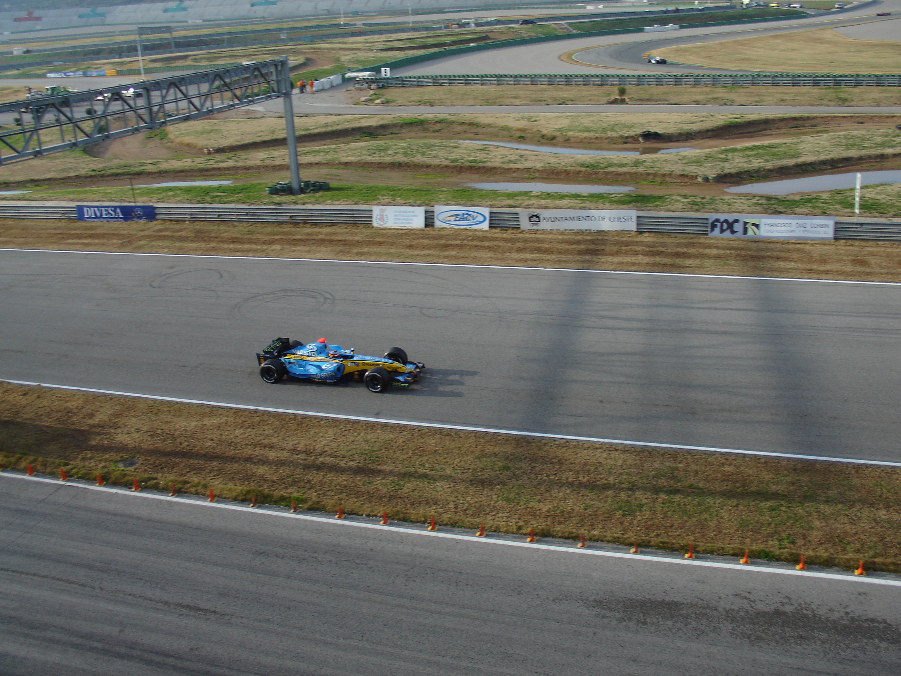 Fernando Alonso at Cheste Circuit (Valencia)